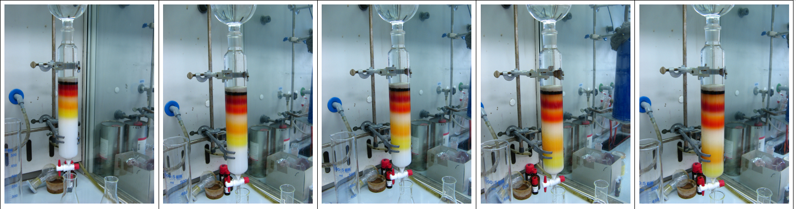 Photografic sequence of a cromatografic column